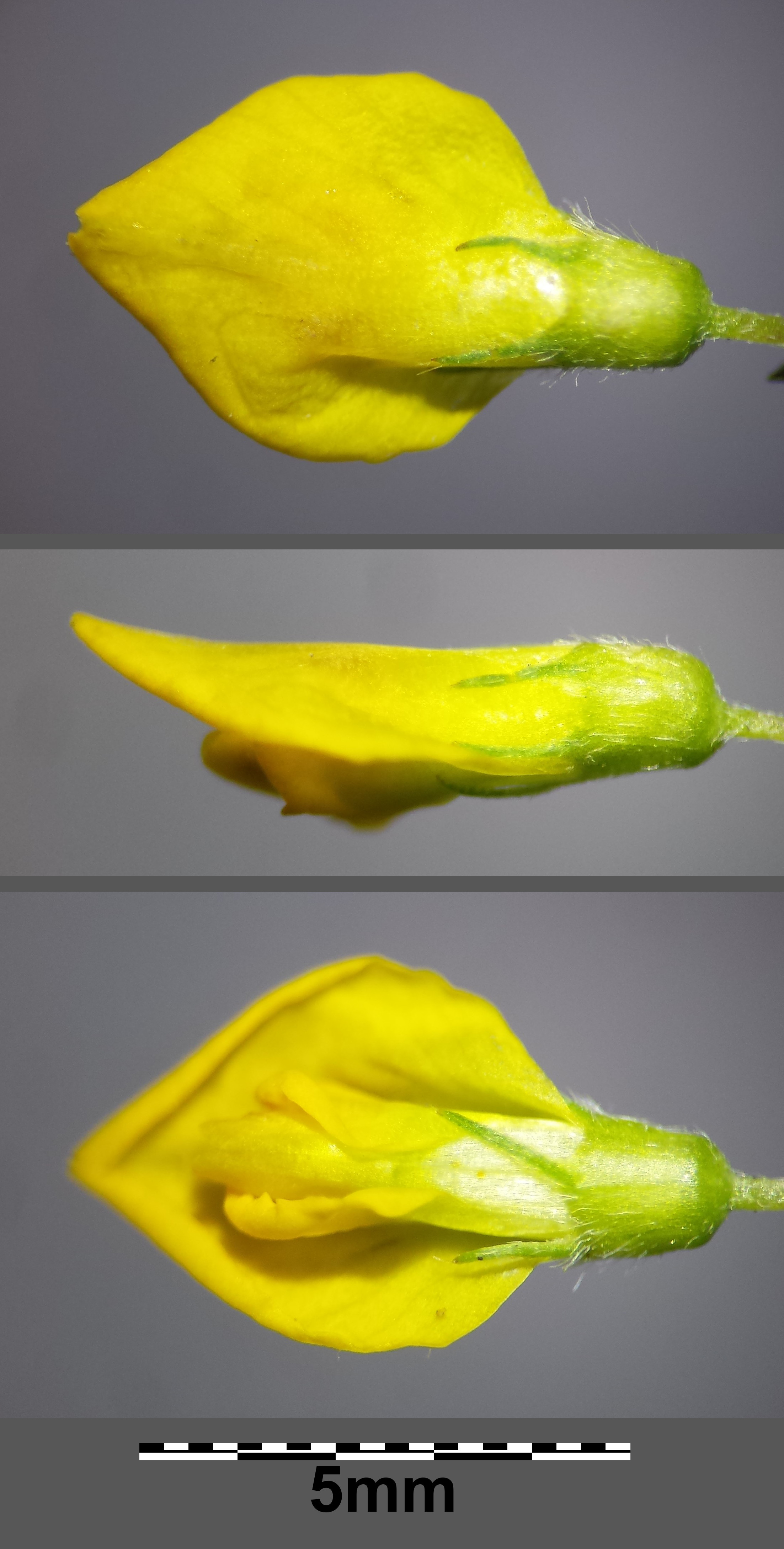 Flower Taxonym: Medicago falcata ss Fischer et al. EfÖLS 2008 ISBN 978-3-85474-187-9 Location: Donaupark, Vienna-Donaustadt - ca. 160 m a.s.l. Habitat: meadows